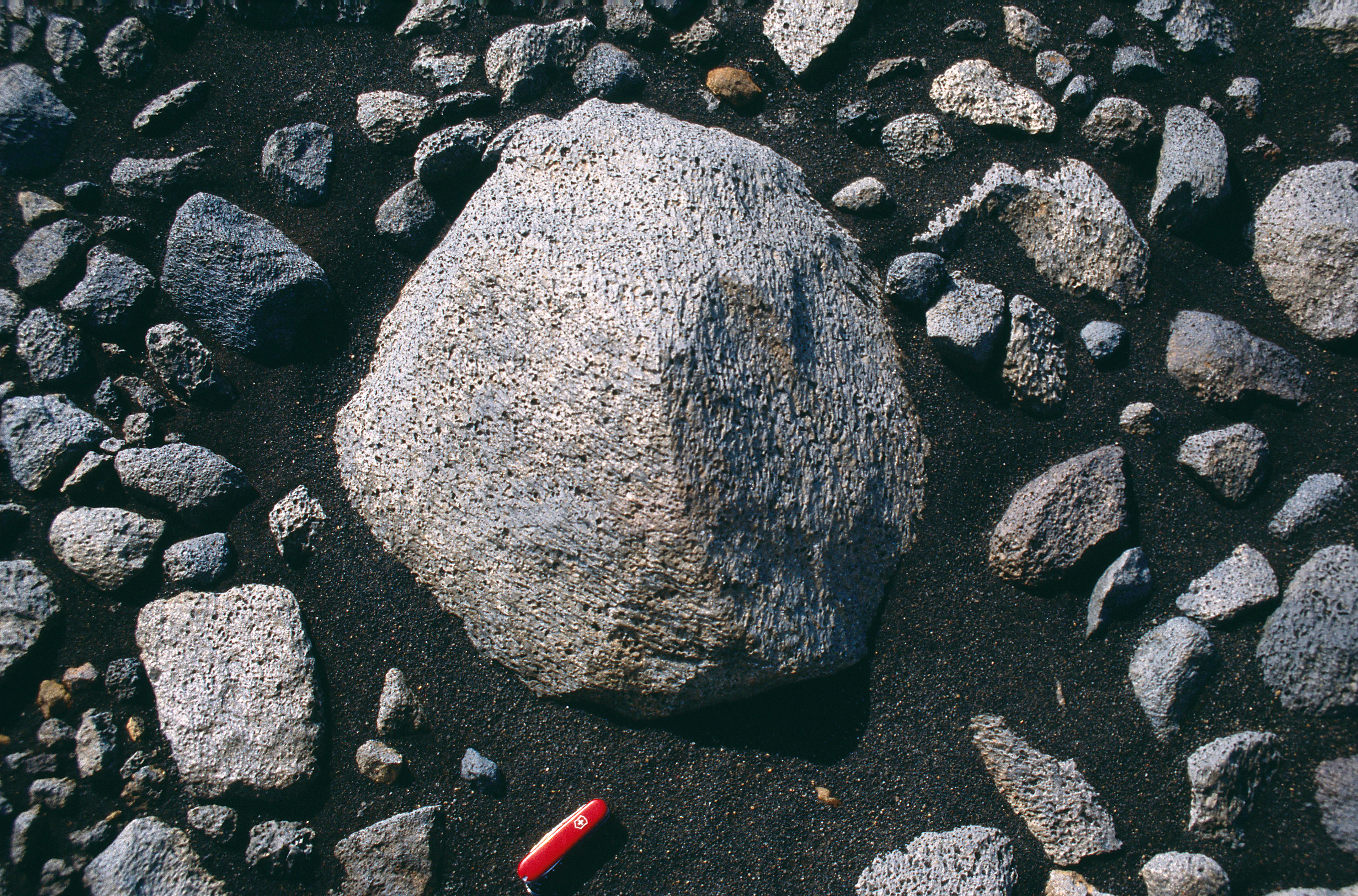 Ventifact at north rim of Dyngyujökull, Iceland